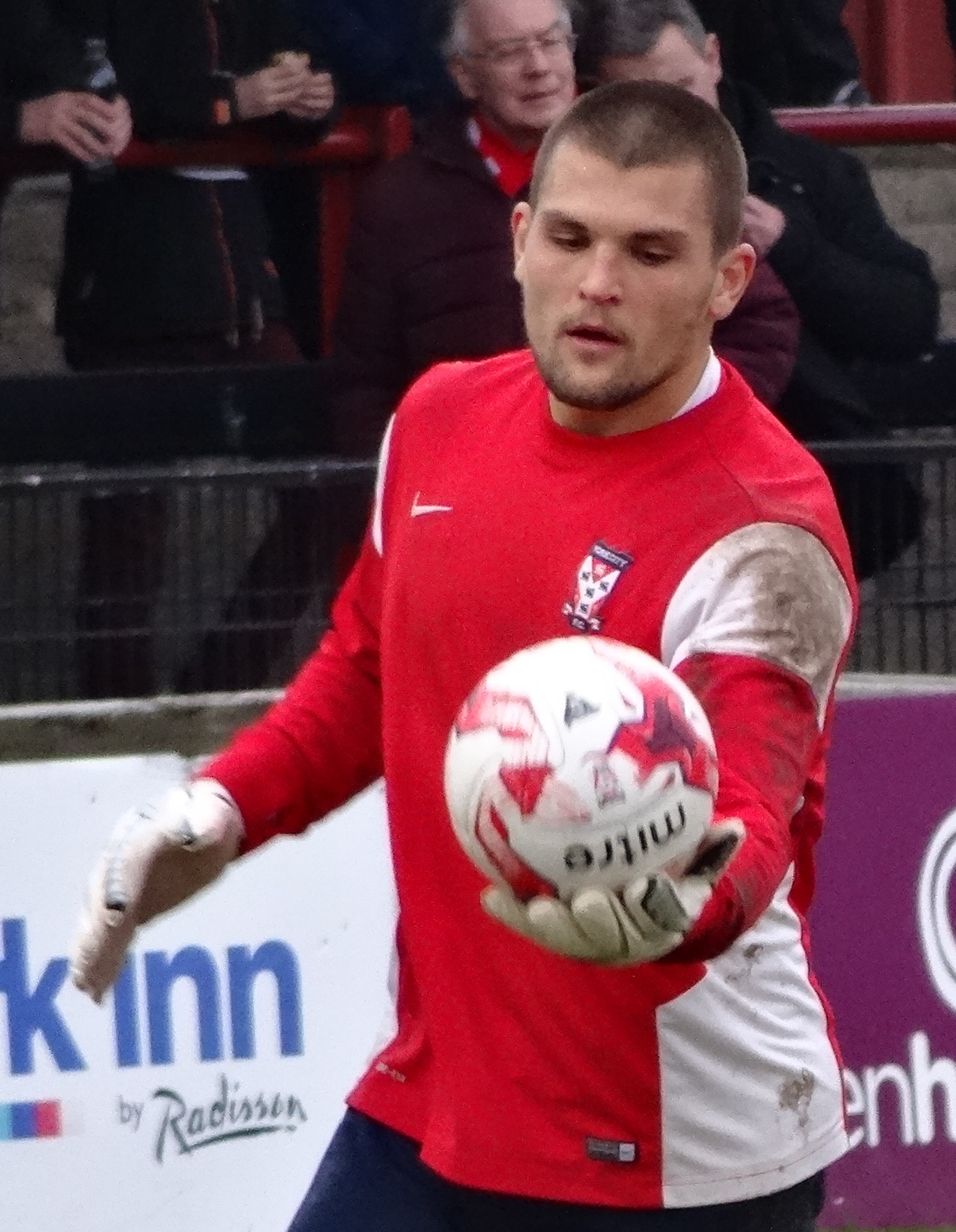 Bobby Olejnik warming up for York City ahead of their match against Exeter City at Bootham Crescent, York on 28 February 2015